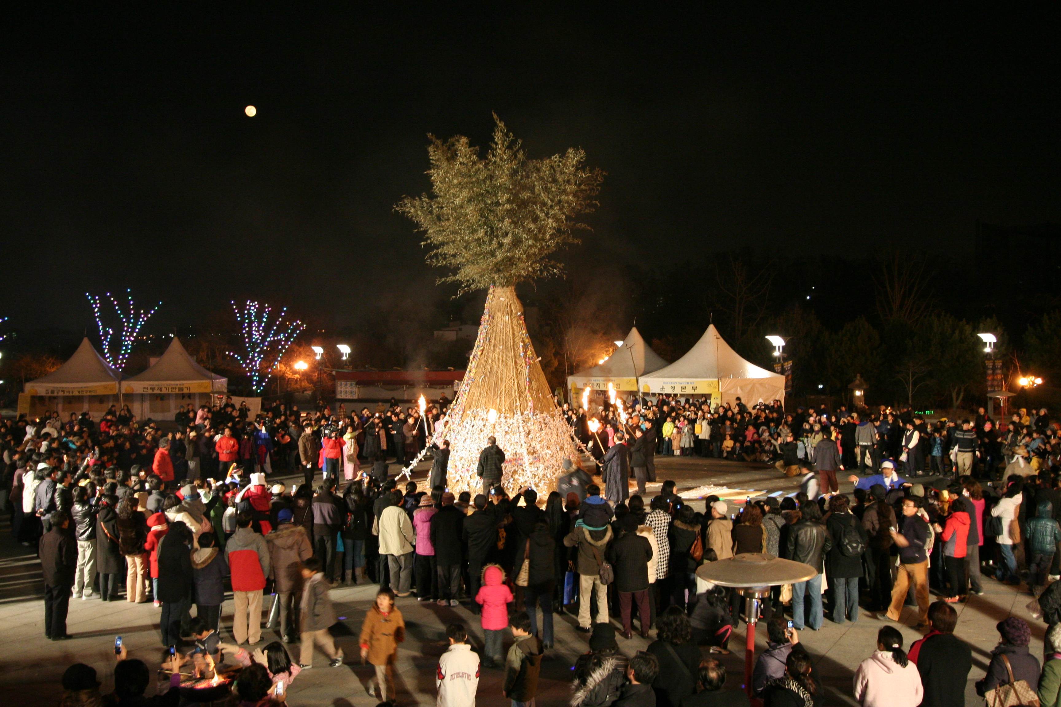 Lighting up. (People were still worryingly close here!)